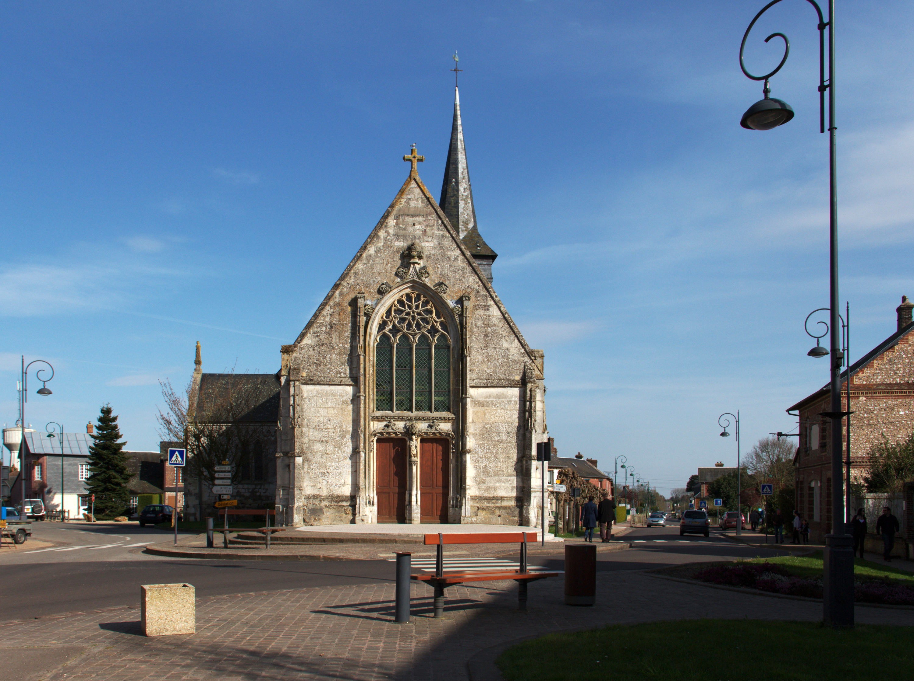 The church Saint-Ouen in Routot. 12th century, classé monument historique, in the base mérimée PA00099538 and IA00018660.